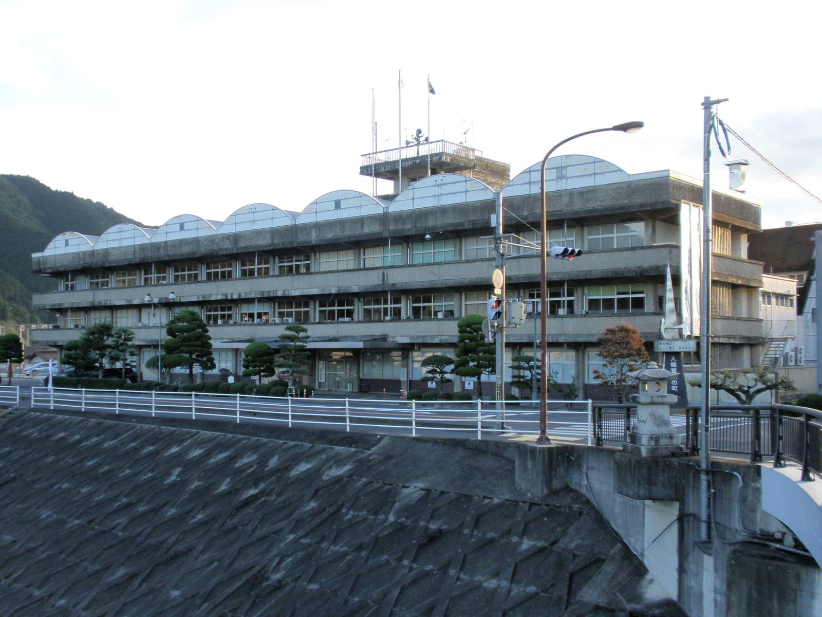 Maniwa city office Ochiai branch Former Ochiai town office (1967.4 - 2005.3.30)